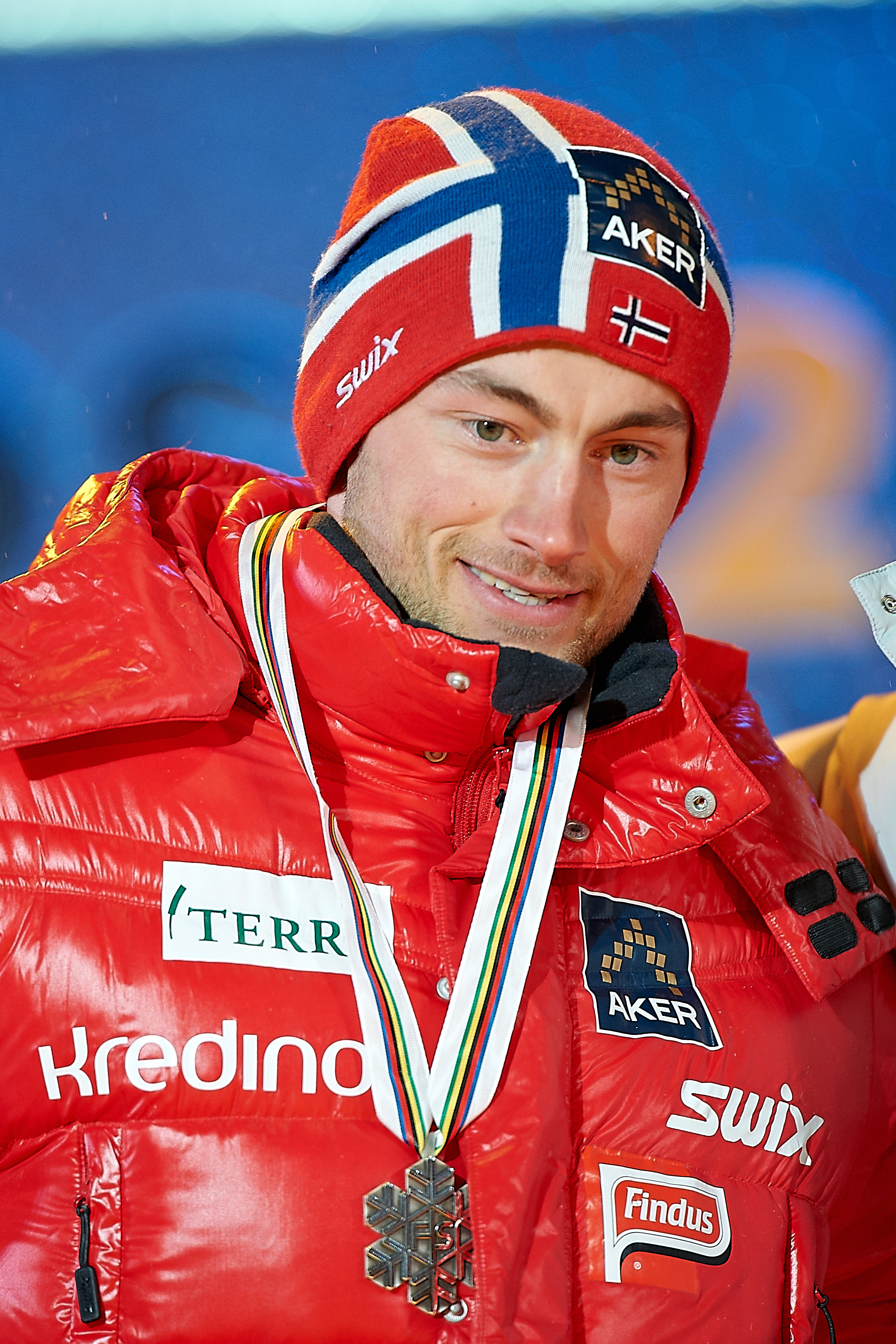 Petter Northug receiving silver medal on the first day of 2011 Ski-WM in Oslo, Norway